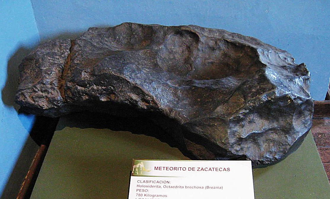 The Zacatecas Meteorite on display at the Regional Museum of Guadalajara in Guadalajara Mexico It weighes 780 kg